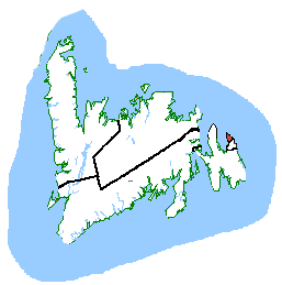 Map of the St. John's East electoral district. Based on Earl Andrew's maps, created by SimonP.